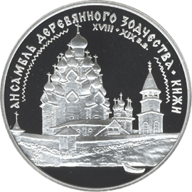 3-ruble coin from the series "Monuments of Russia, ensemble of wooden architecture in Kizhi", Central Bank of Russia.